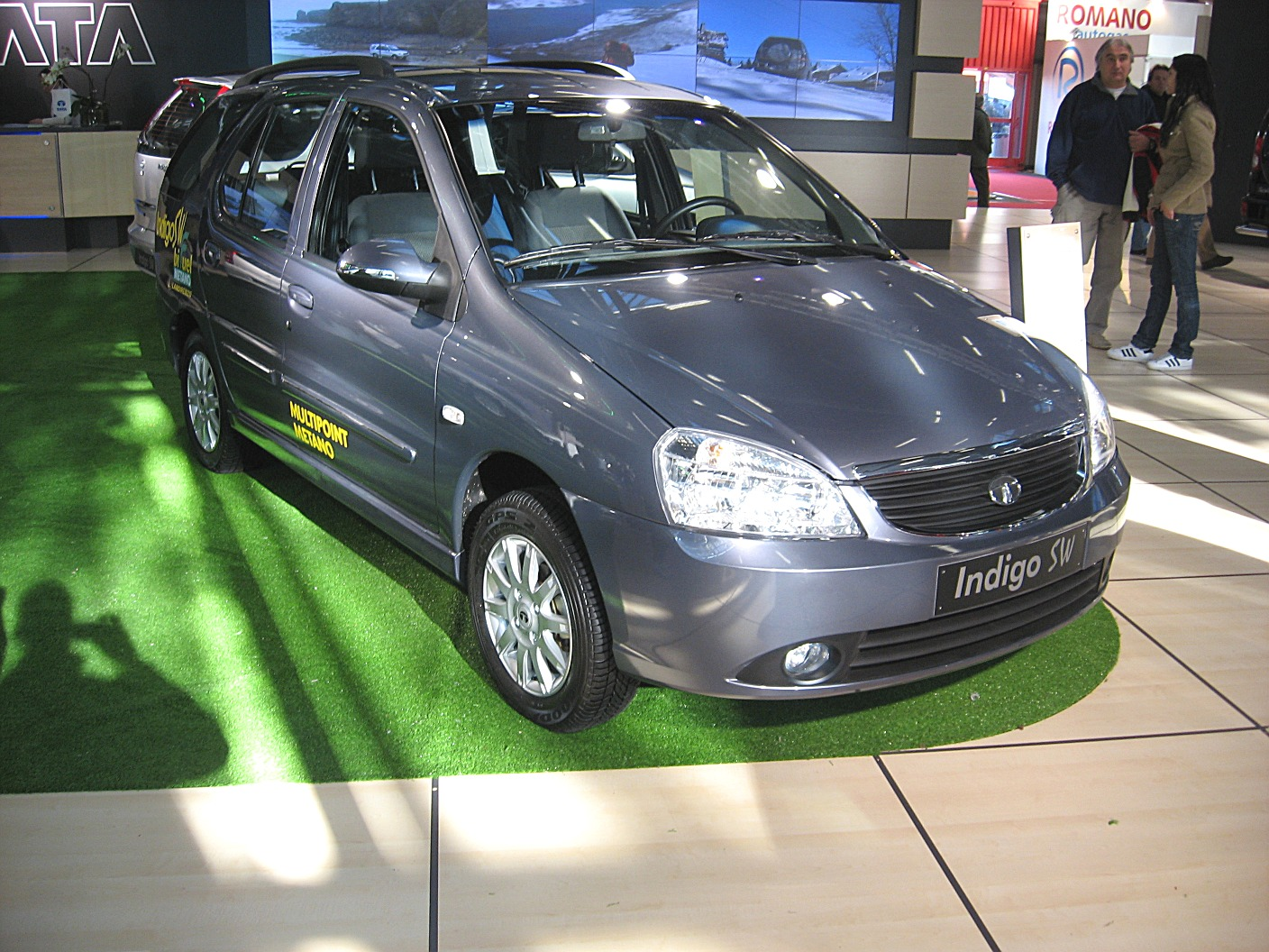 Subject:Tata Indigo SW Author:Luc106 Date:December 13th, 2007 Event:Motor Show Bologna 2007 Place/Country: Bologna, Italy I release all rights in the public domain.